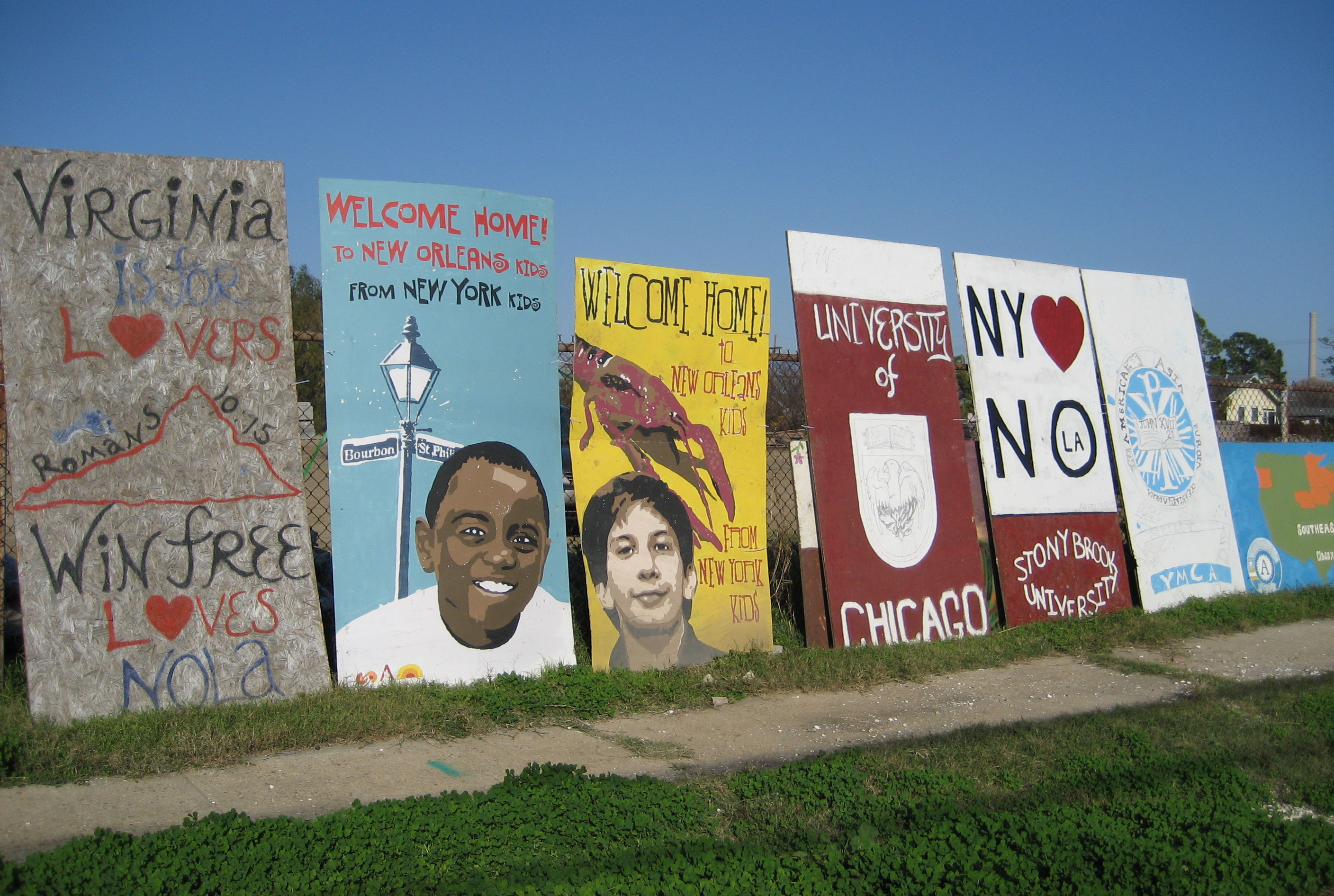 "Musicians' Village" development of post-Hurricane Katrina housing in the Upper 9th Ward of New Orleans. (December 2006) Signs from volunteer groups